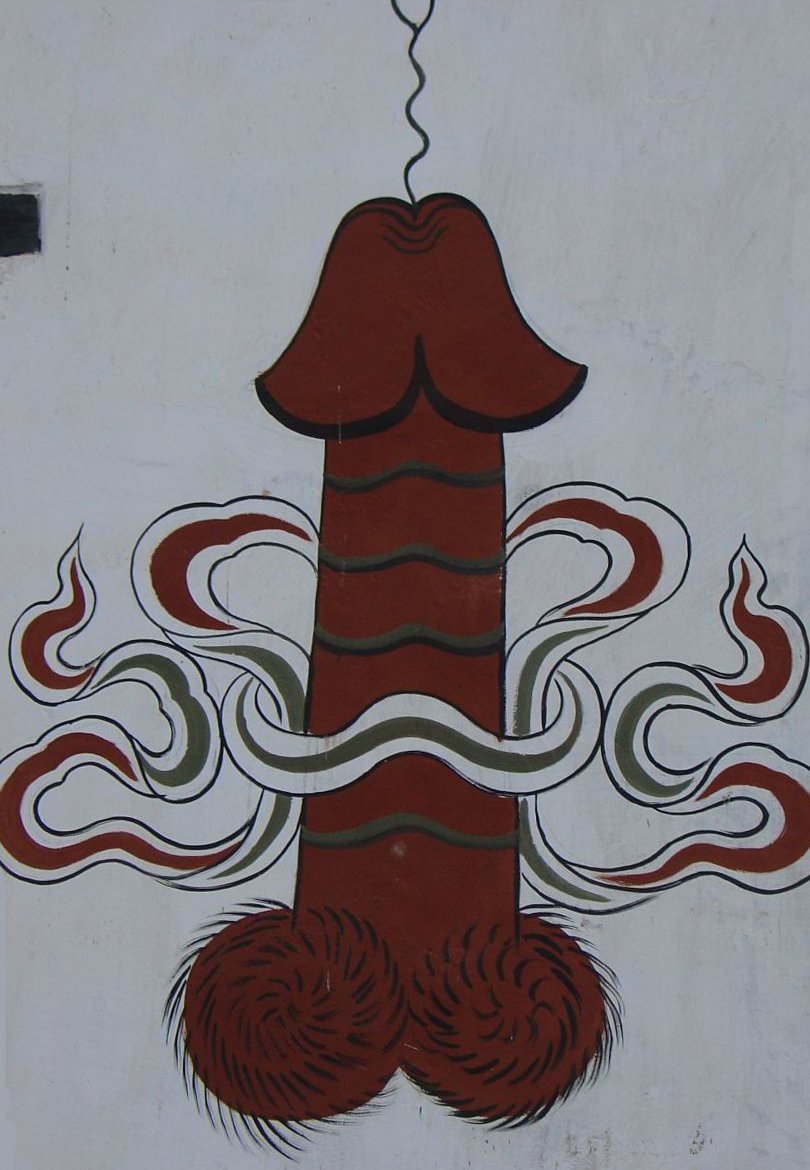 Thunderbolt on side of house to Scare of Evil